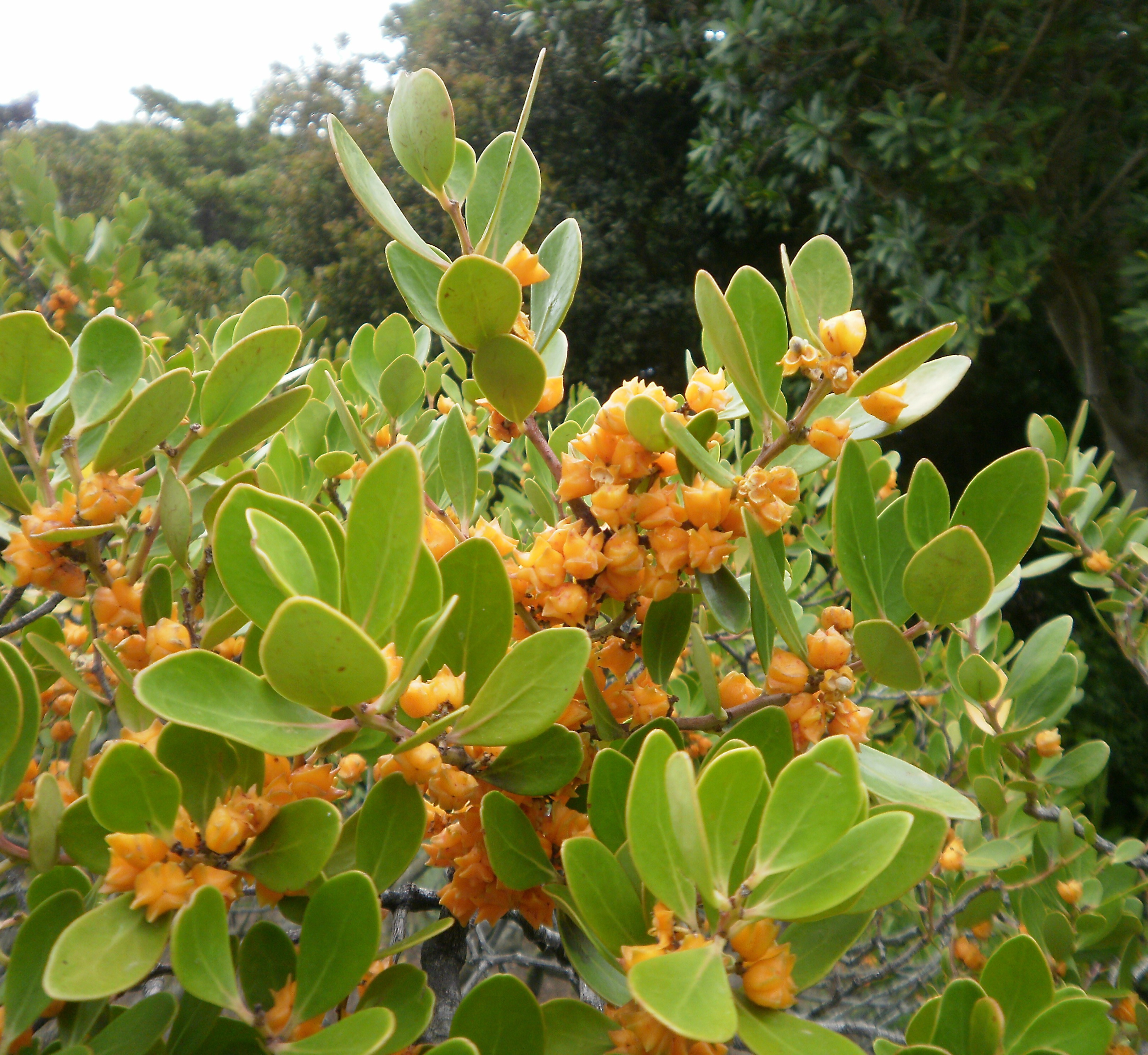 Pterocelastrus tricuspidatus. The Candlewood tree of South Africa. Detail of fruits and foliage.